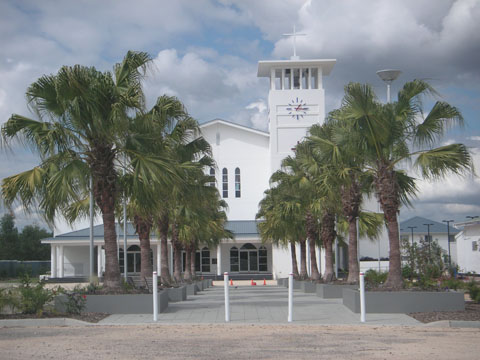 Free Wesleyan Church of Tonga located in Glendenning, NSW